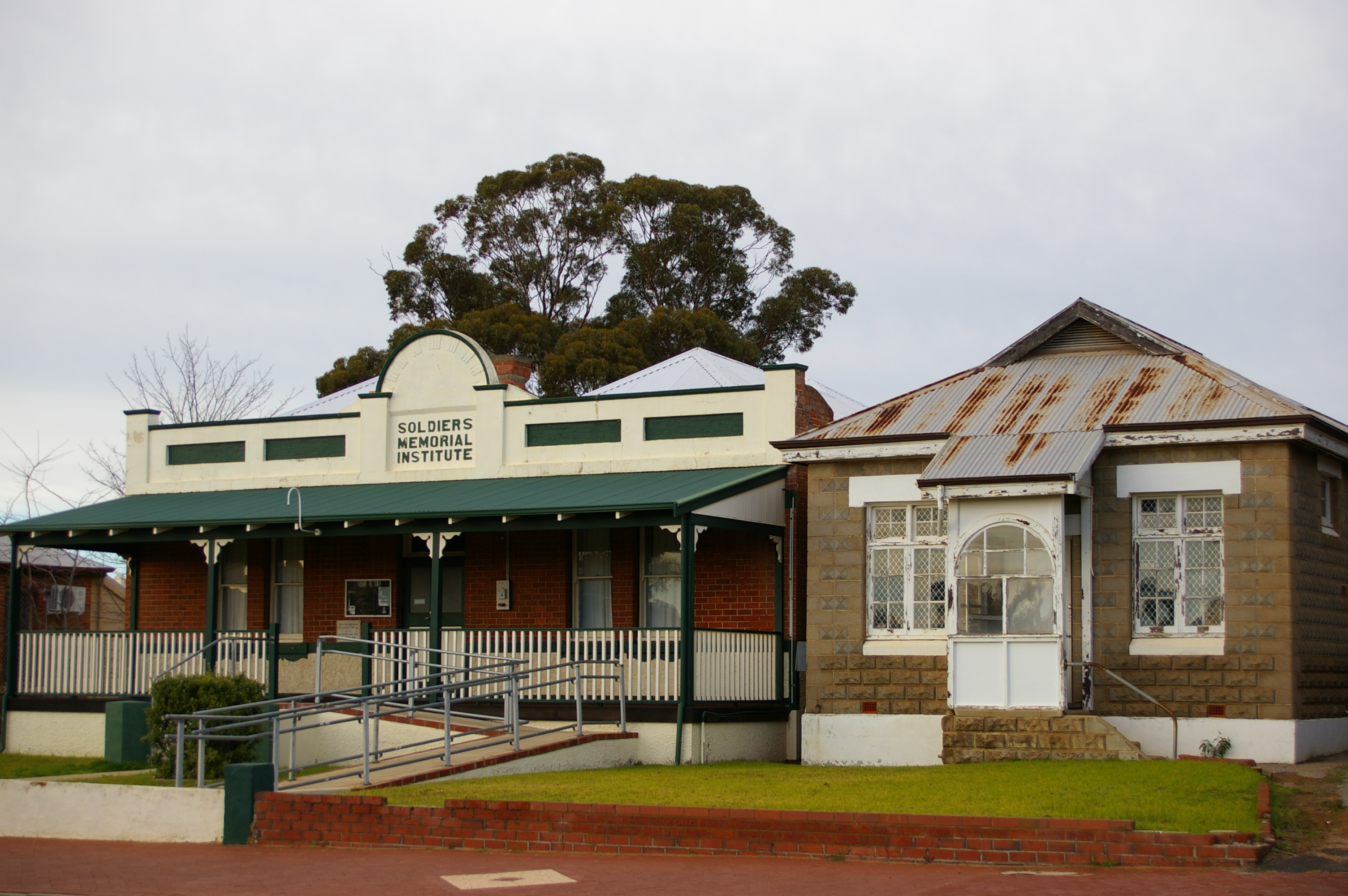 Soldiers memorial hall, Narrogin, Western Australia